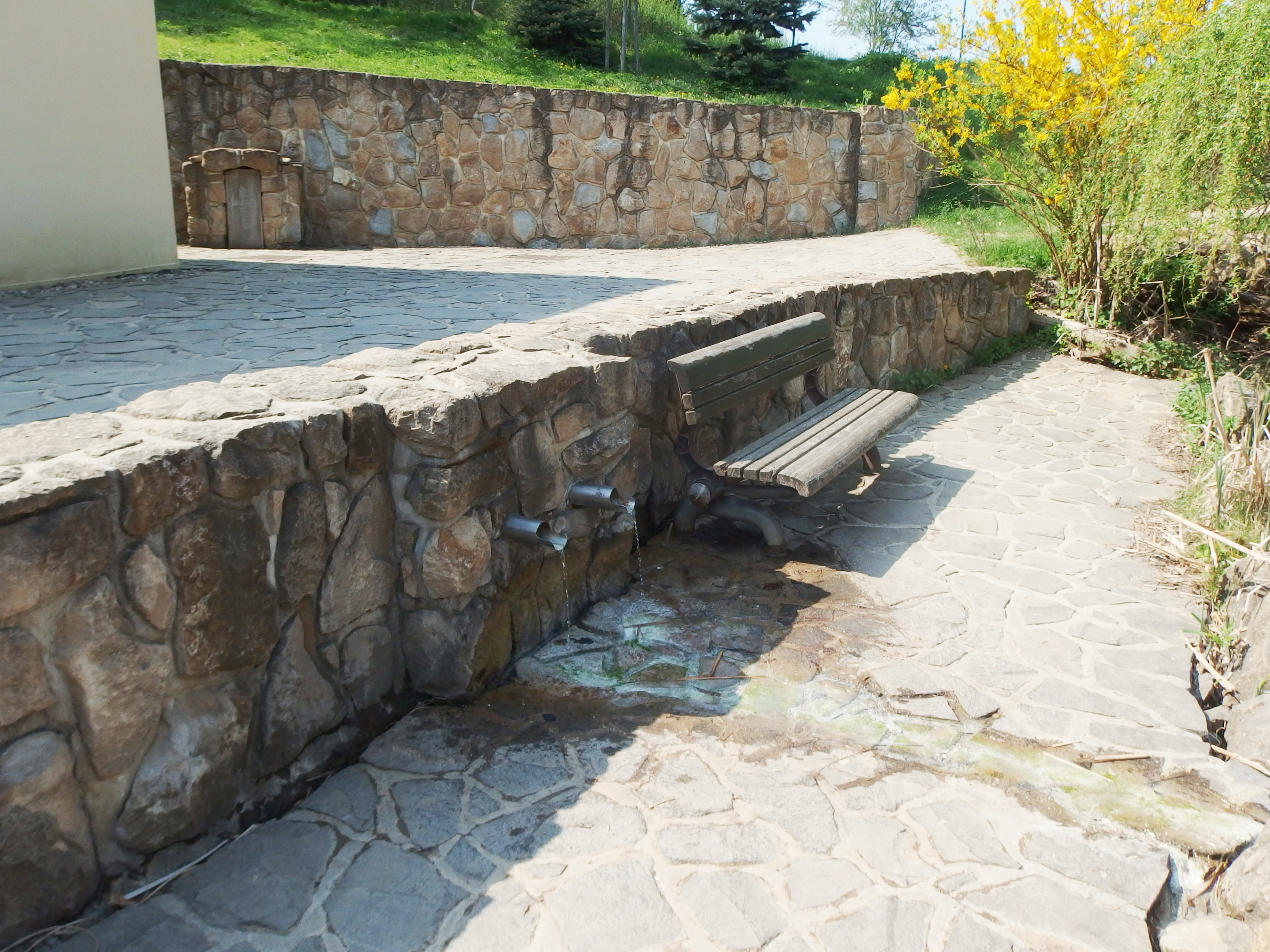 Buchlovice, Uherské Hradiště District, Czech Republic. Part Smraďavka.